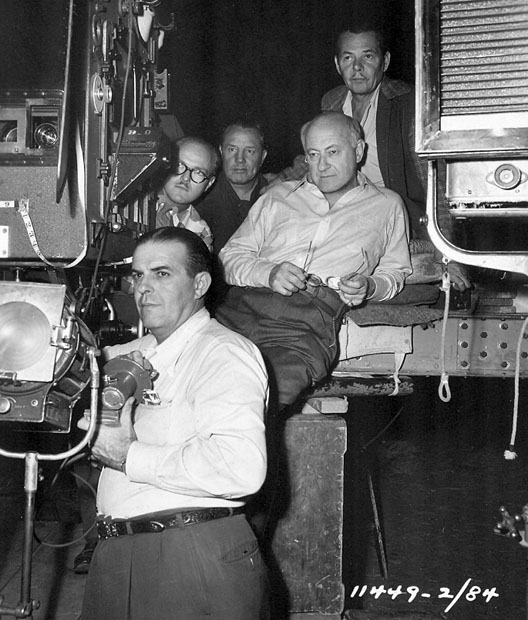 At work on Samson and Delilah : (L-R) Technicolor technician Paul Hill (foreground), assistant cameraman John F. Warren, head electrician Soldier Graham, director Cecil B. DeMille and cinematographer George Barnes